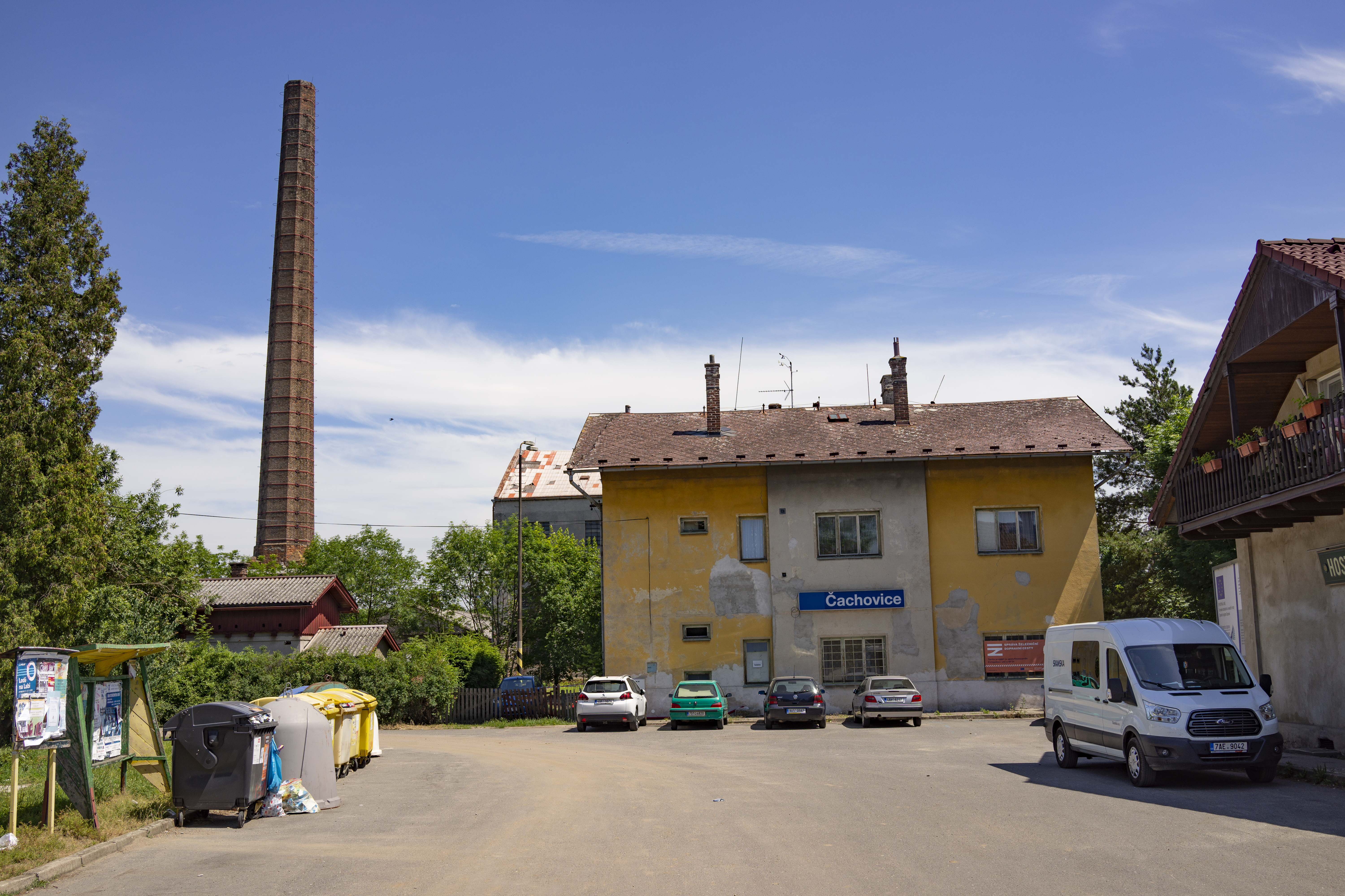 Čachovice - train station